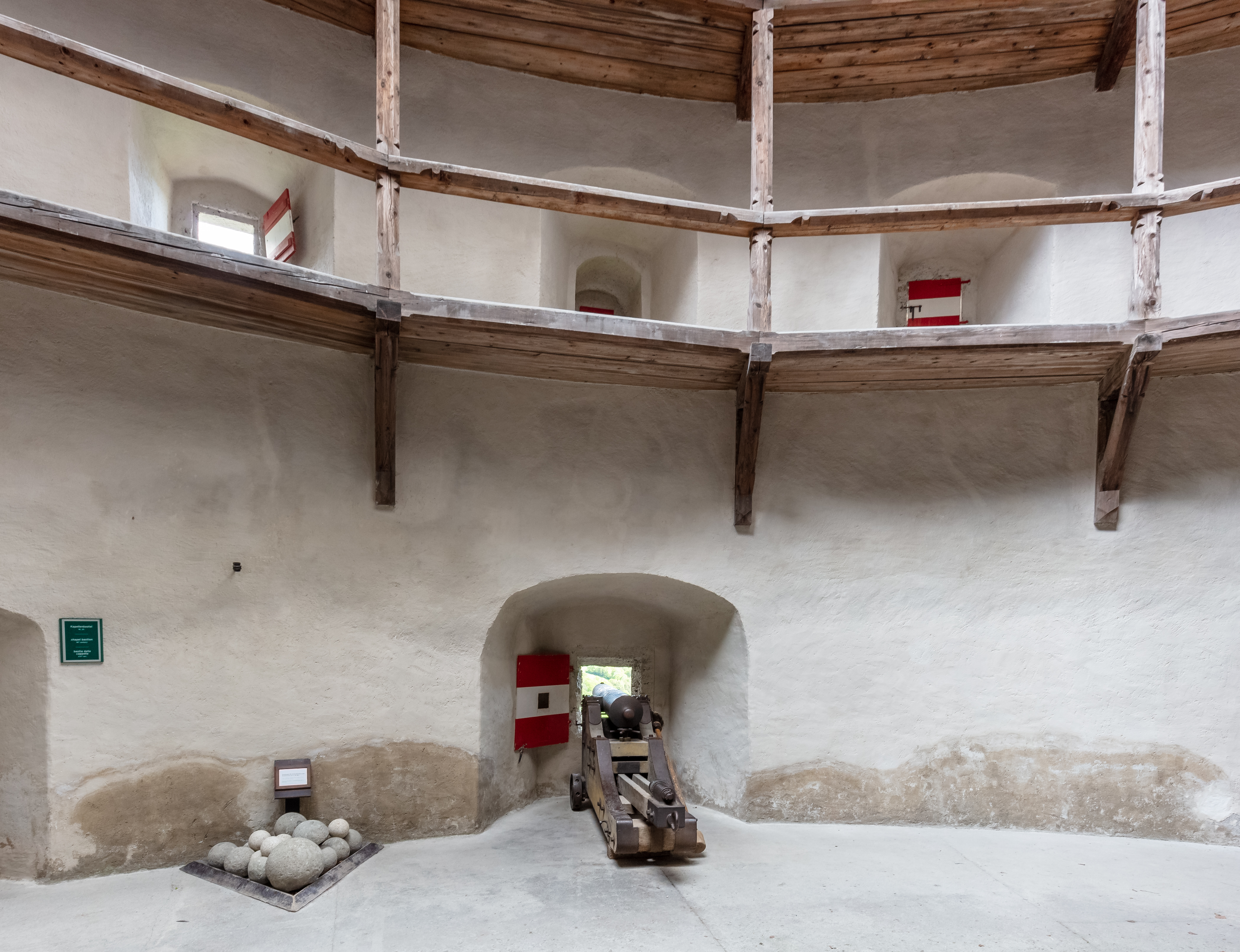 Castle Hohenwerfen, Werfen, Austria